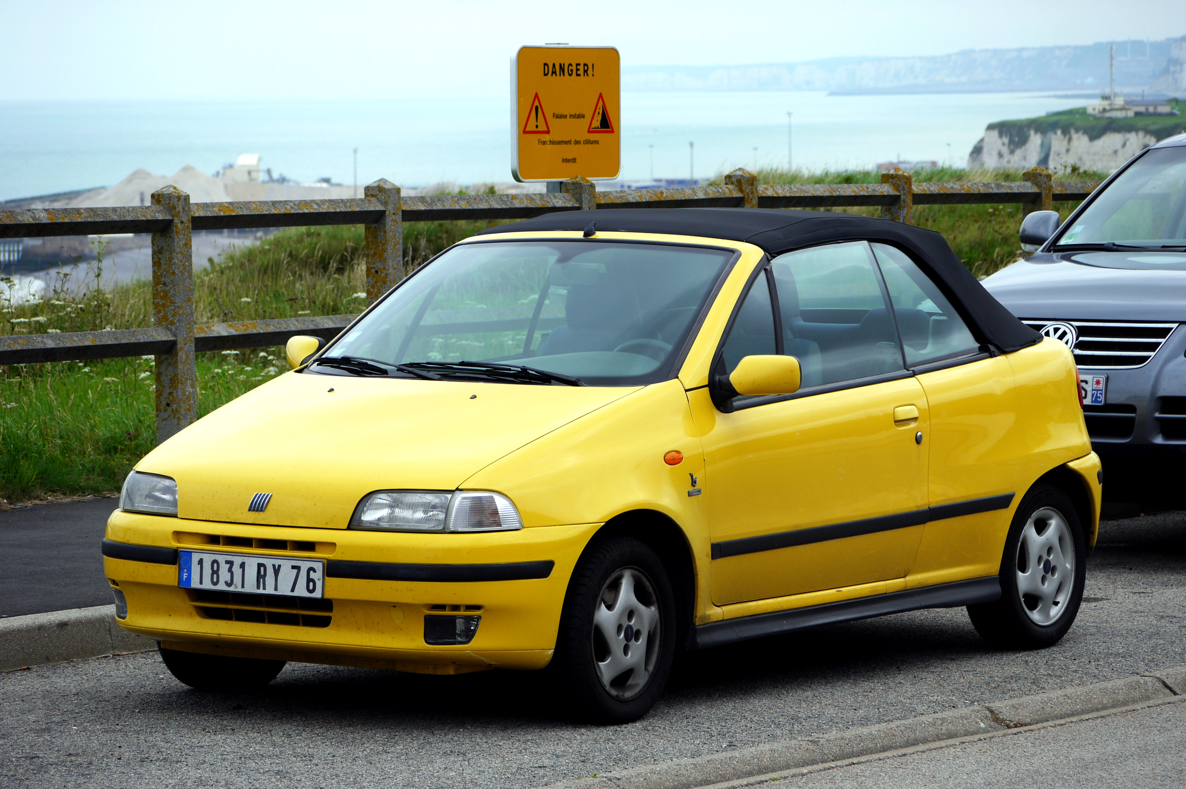 Fiat Punto convertible - by Bertone.